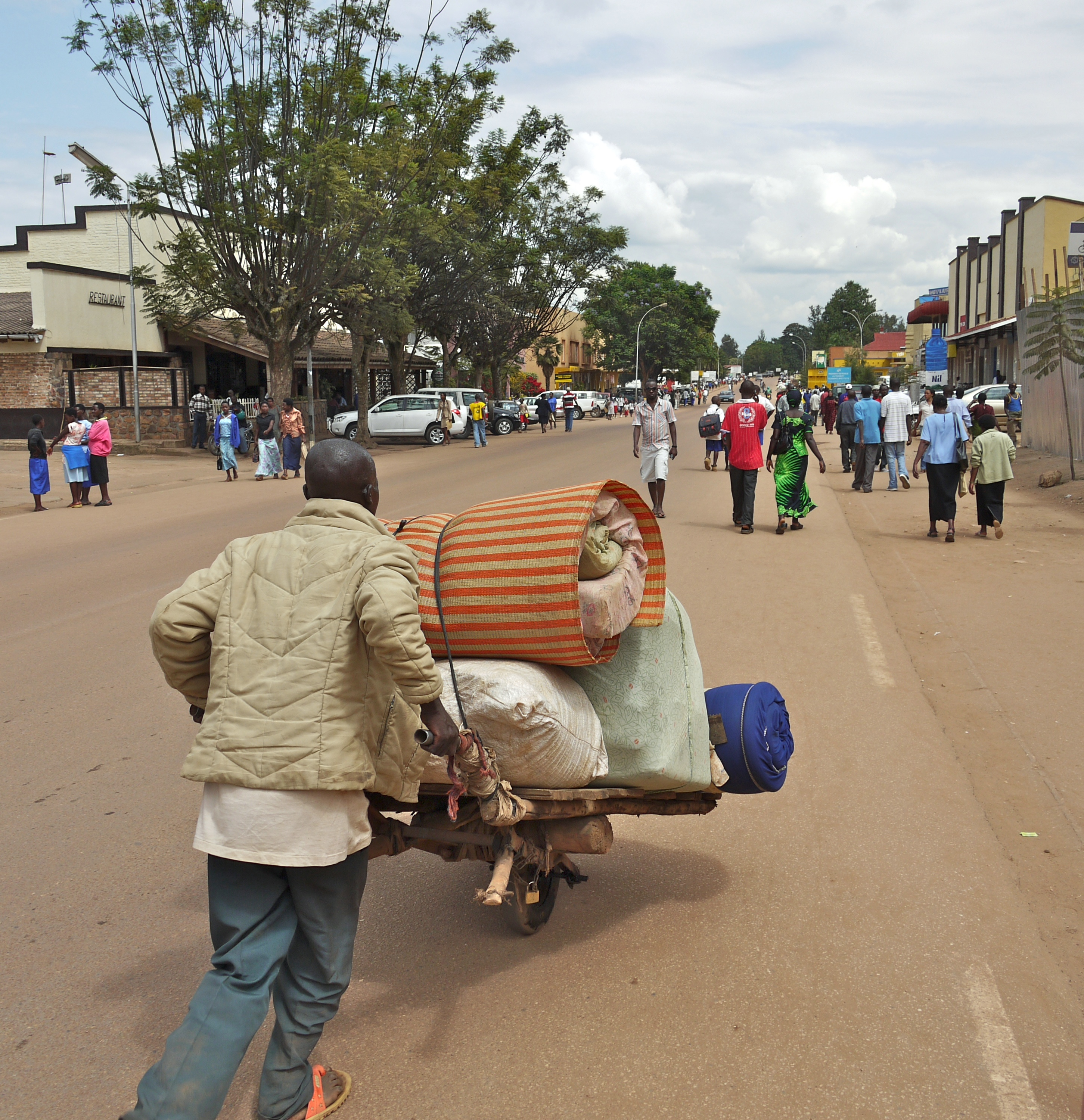 This is take in Butare/Huye in Southern Rwanda of the main street.